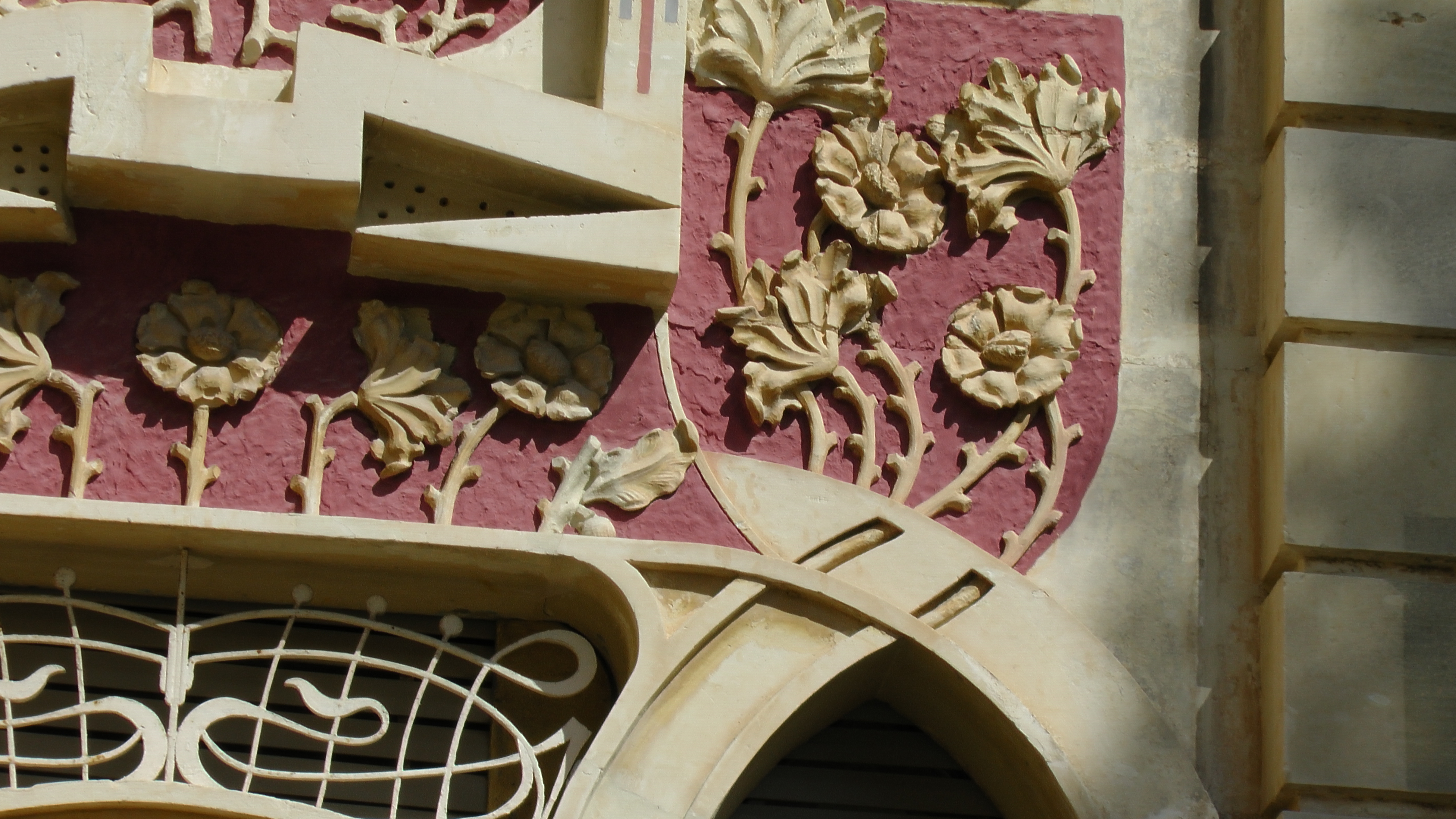 Rose Ville - Art Nouveau architecture in Malta. This media is about Maltese cultural property with inventory number 01151.